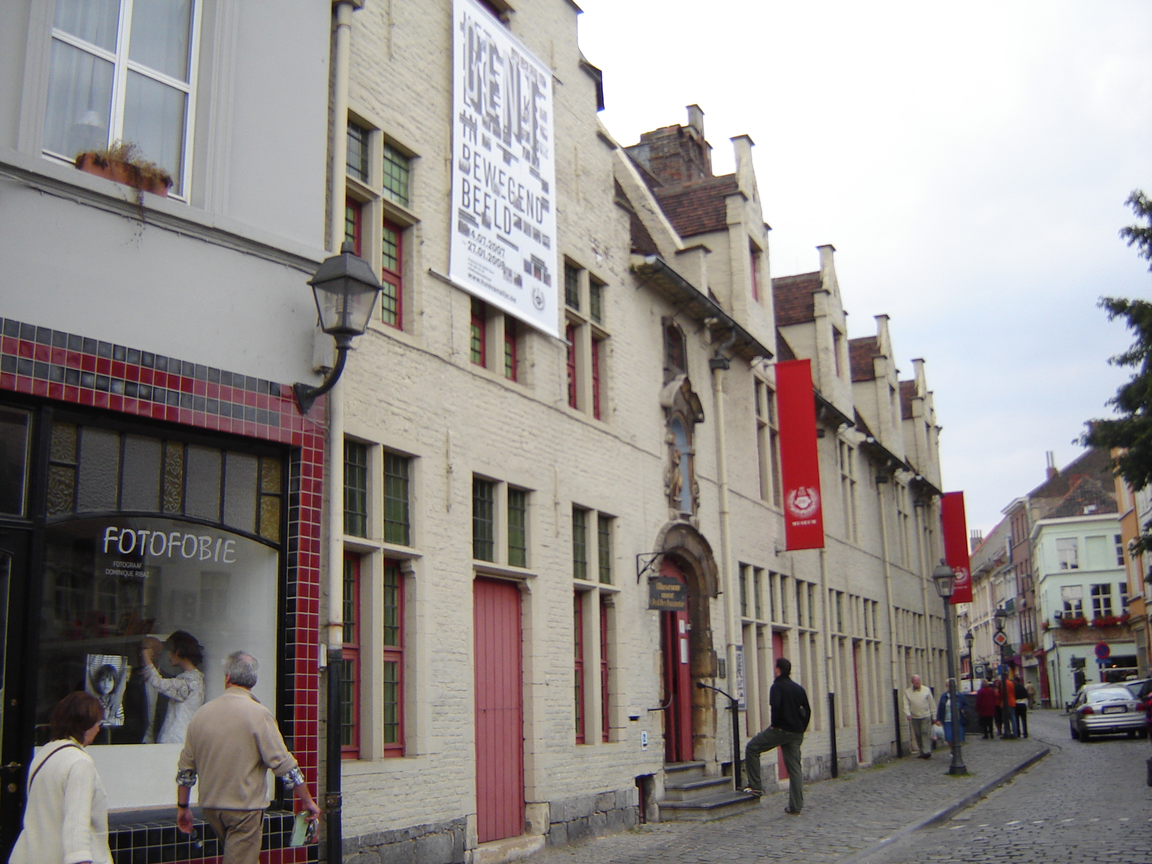 Kinderen Alijnshospitaal in Gent. Former almshouse, nowadays "Huis van Alijn" museum. Gent, East Flanders, Belgium.